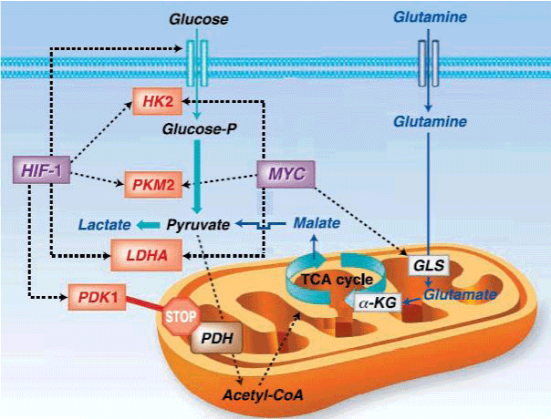 Myc and HIF-1 regulate glucose metabolism and stimulate the Warburg effect. Myc and HIF-1 are depicted to regulate (dotted lines) genes involved in glucose metabolism (glucose transporter Glut1, HK2, PKM2, LDHA, and PDK1), favoring the conversion of glucose to lactate (glycolysis). Myc is also depicted to stimulate glutamine metabolism through the regulation of glutaminase (GLS). Glutamine is shown converted to α- ketoglutarate (α-KG) for catabolism through the TCA cycle to malate, which is transported into the cytoplasm and converted to pyruvate and then to lactate (glutaminolysis).